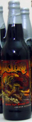 Dark Lord Russian Imperial Stout by Three Floyds Brewery in Indiana, vintage 2007.